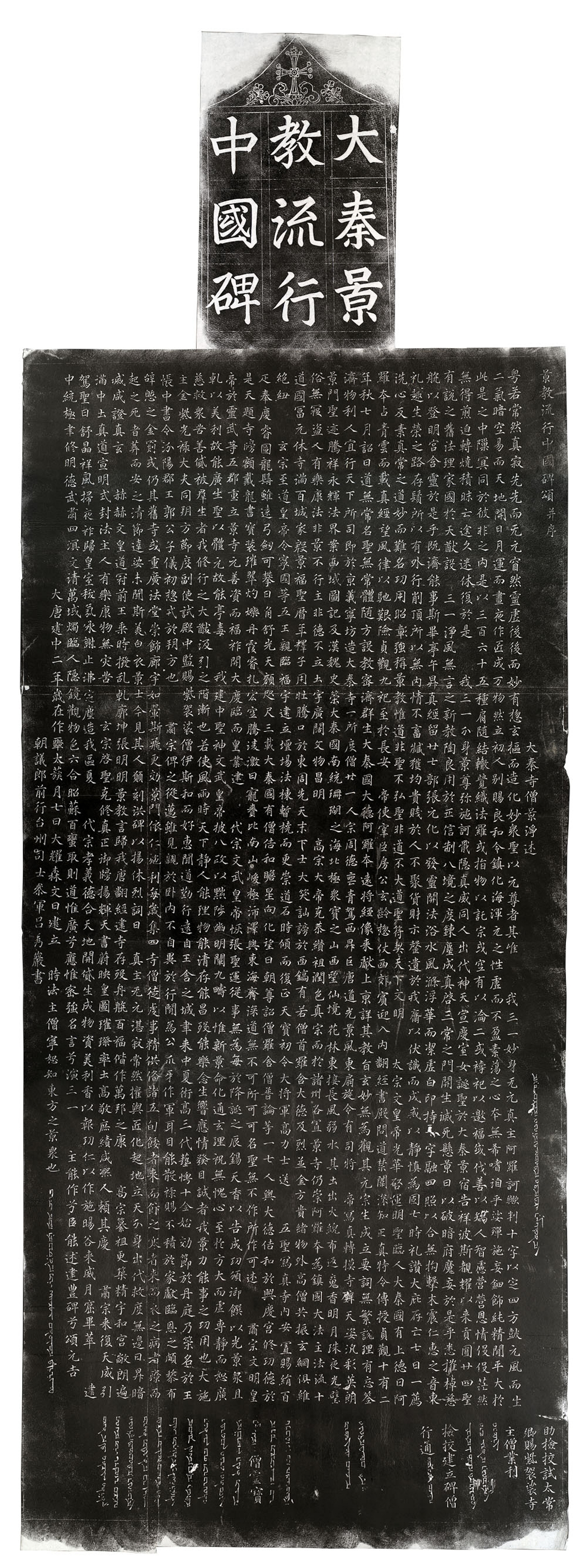 Reproduction of drawing of the text from Nestorian Stele, Xi'an